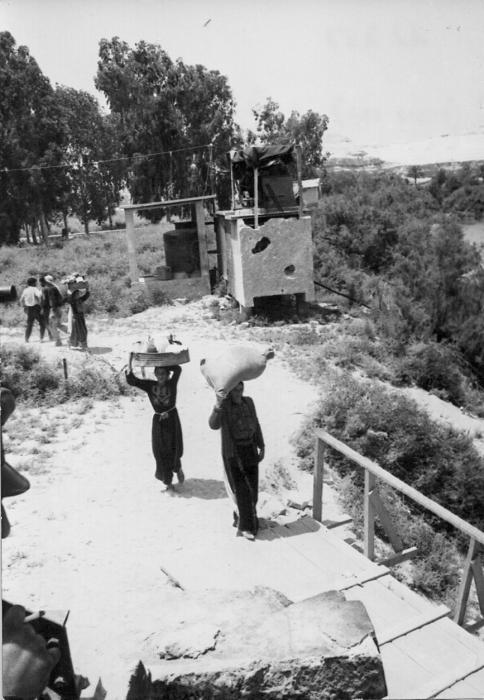 Palestinians crossing the partially ruined Allenby Bridge heading to Jordan about two weeks after the Six Day War.